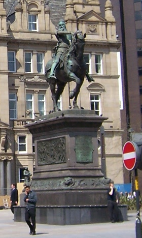 City Square with Post Office in Leeds, West Yorkshire (England) * photo taken on 10 May 2006